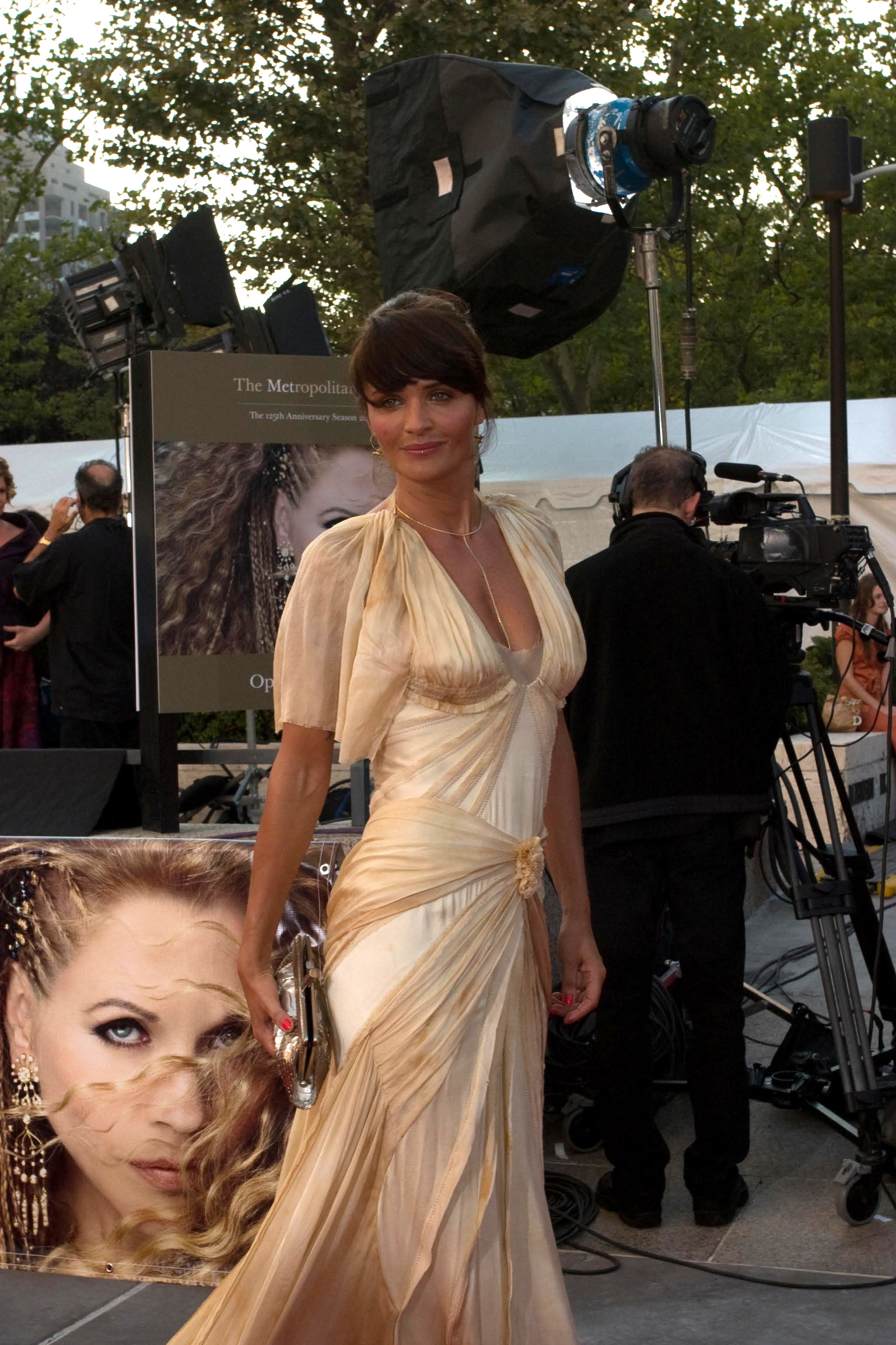 Model Helena Christensen, at the Metropolitan Opera opening in 2008. © Rubenstein, photographer Martyna Borkowski